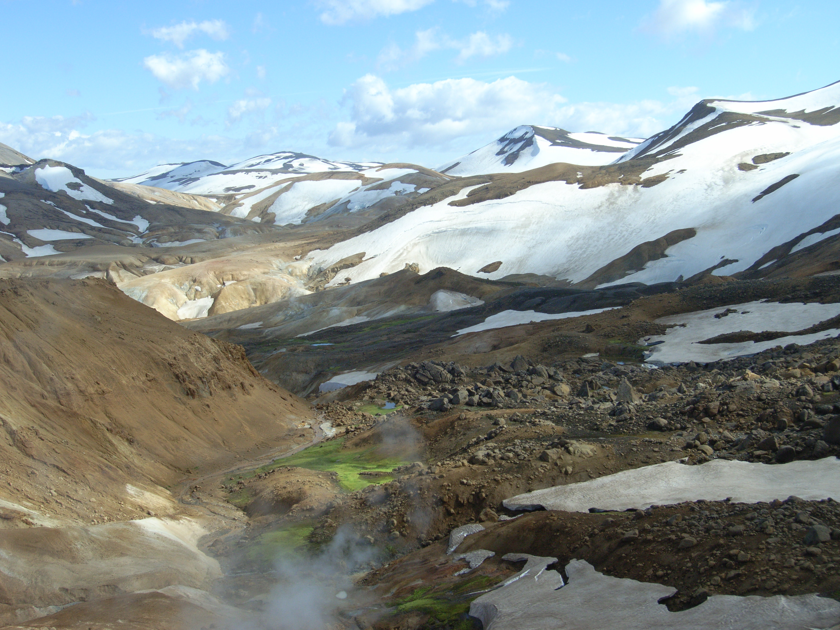 Valley in the Kerlingarfjöll mountain range in Iceland.